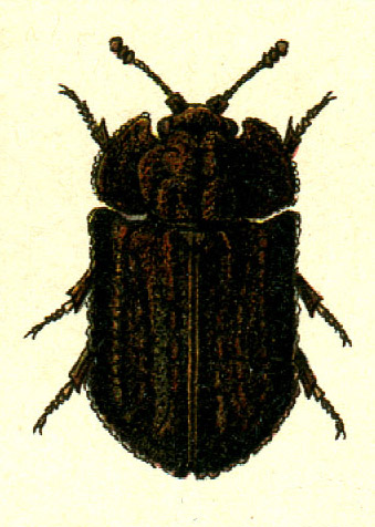 Calitys scabra